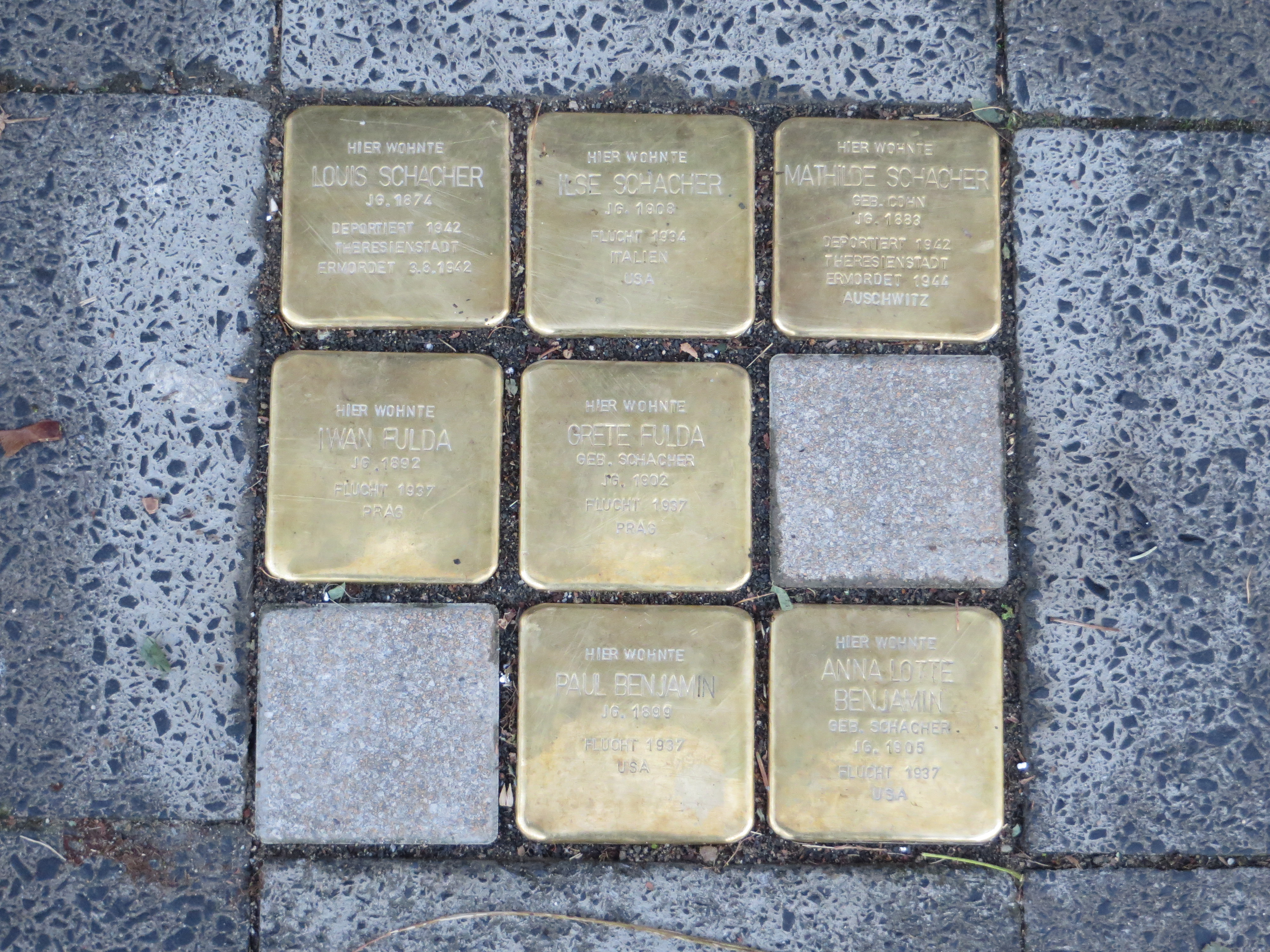 Stolpersteine at house Ardeystraße 70 in Witten, GermanyEsperanto: Stumbligaj ŝtonetoj ĉe domo Ardeystraße 70 en Witten, Germanio